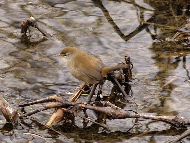 Cetti's Warbler Cettia cetti, Montoliu de Lleida, Catalunya.